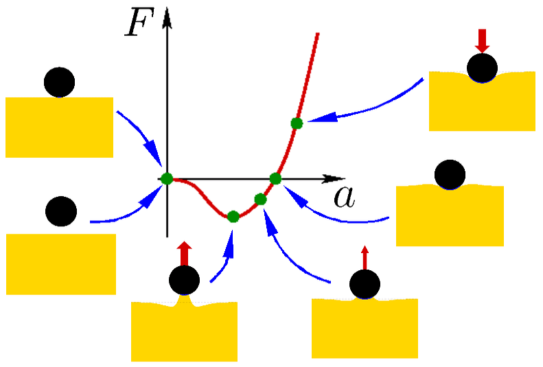 JKR experiment with solid bead on planar elastic material: force as a function of the contact radius, with illustrations